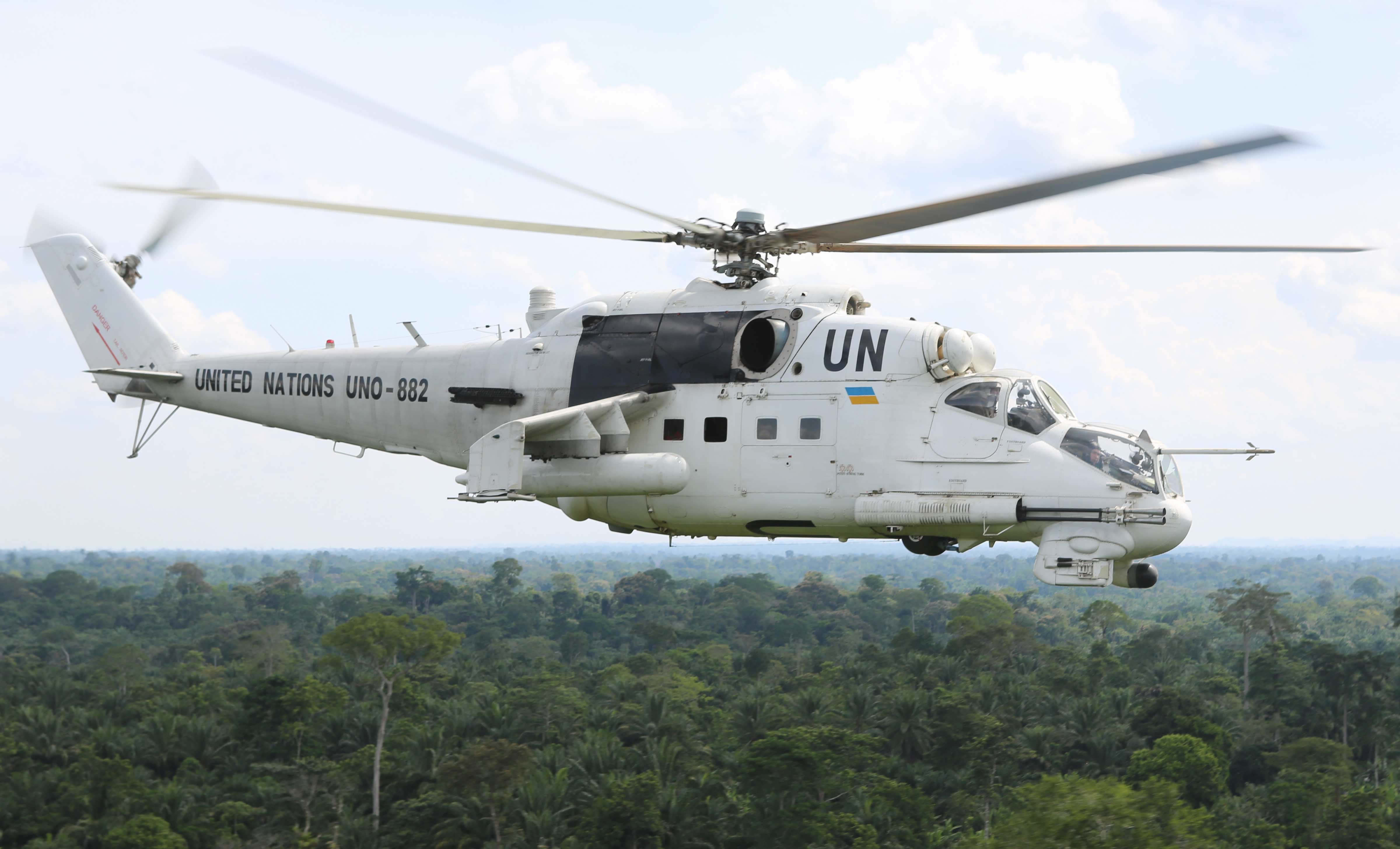 MONUSCO's attack helicopters were used to support the military operations launched on June 3, 2015 by the FARDC against the FRPI combatants.